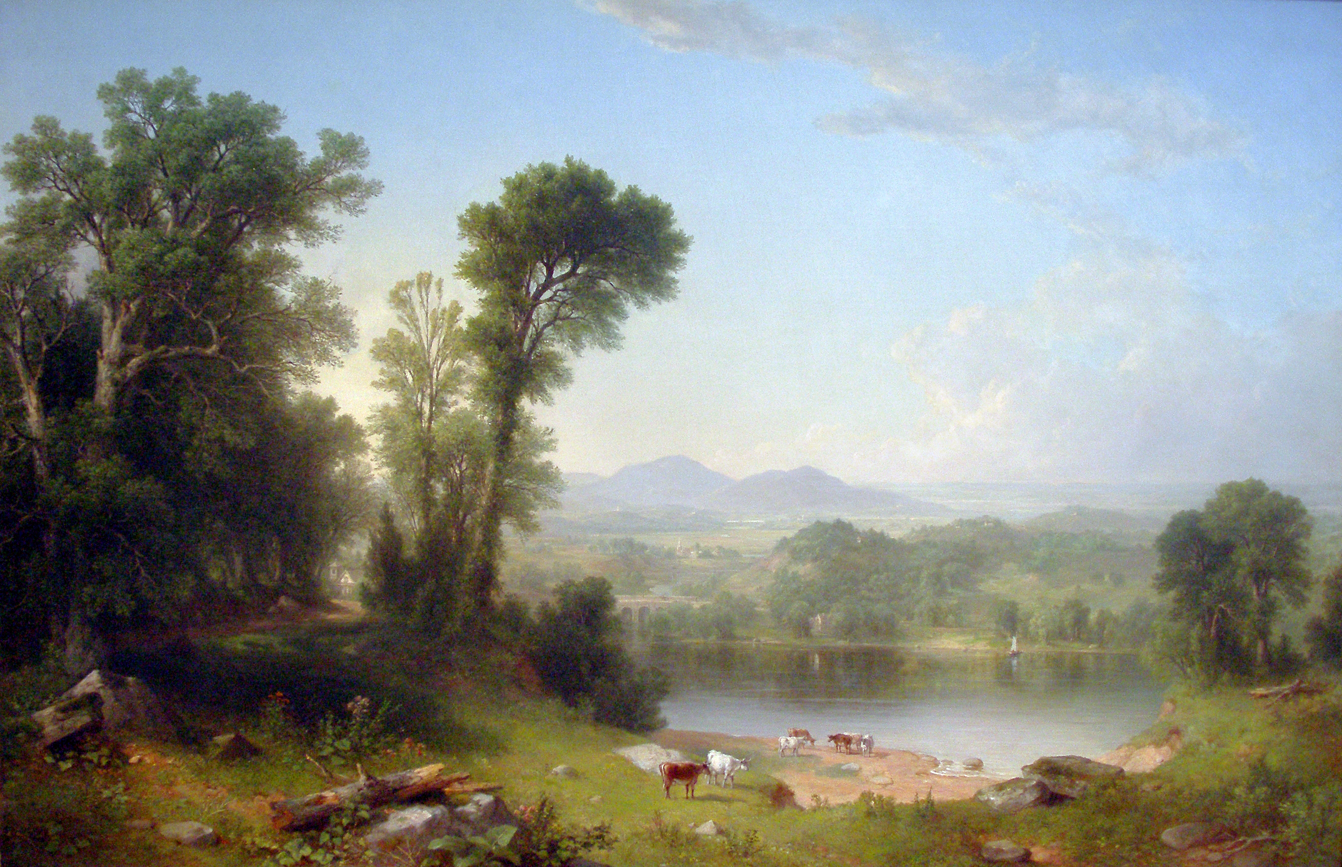 Pastoral Landscape